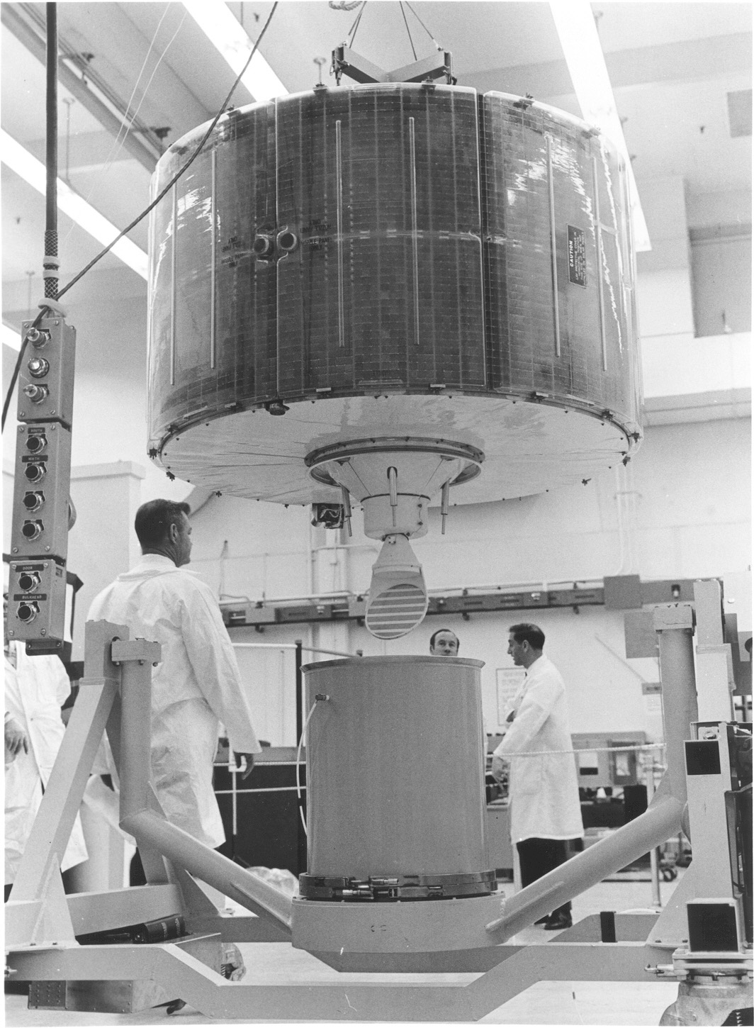 A Skynet 2 satellite being packed for shipment at a contractor's facility.